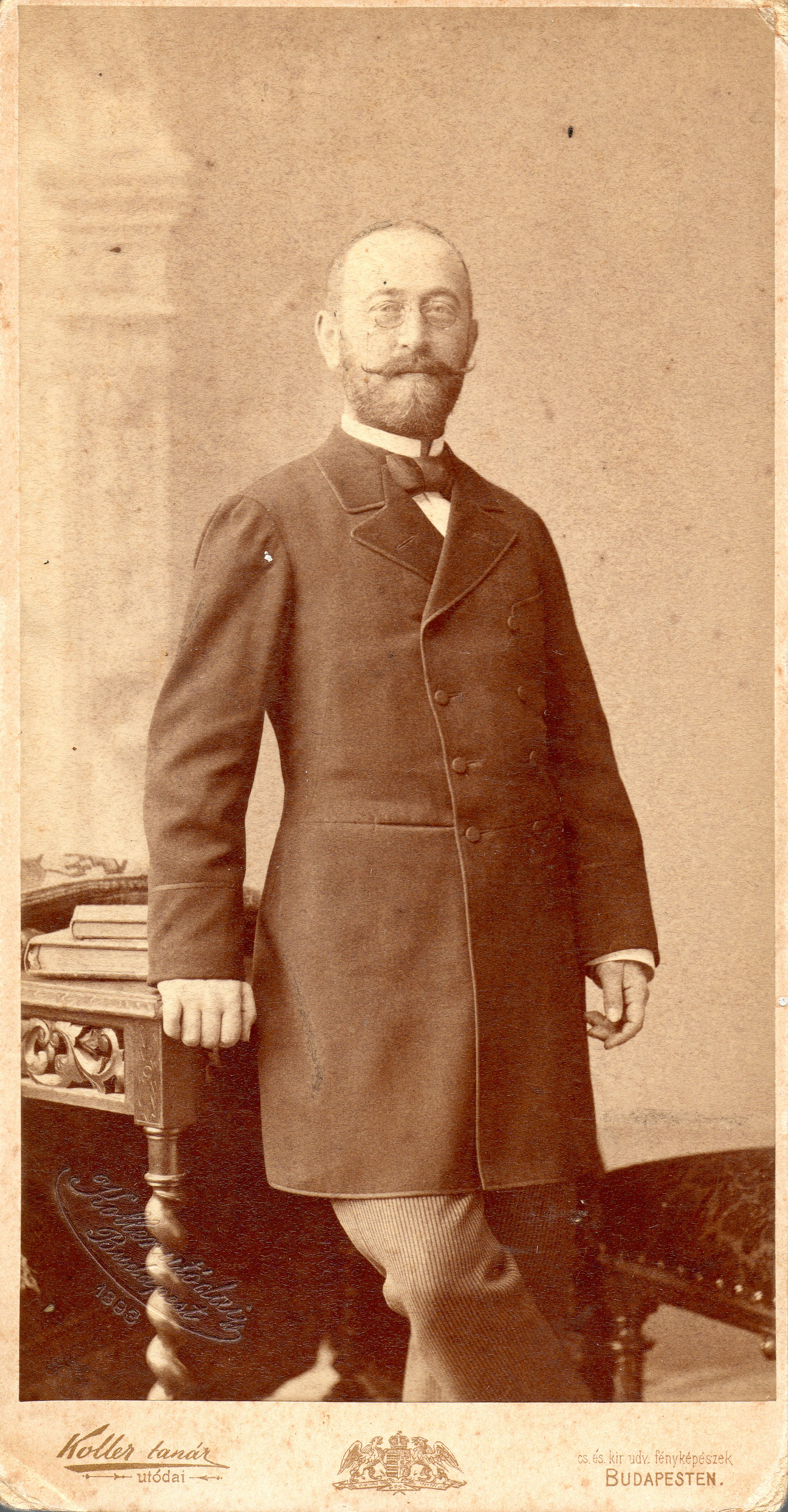 Portrait of M.D. Gyula Erőss de Dercsika in 1893.